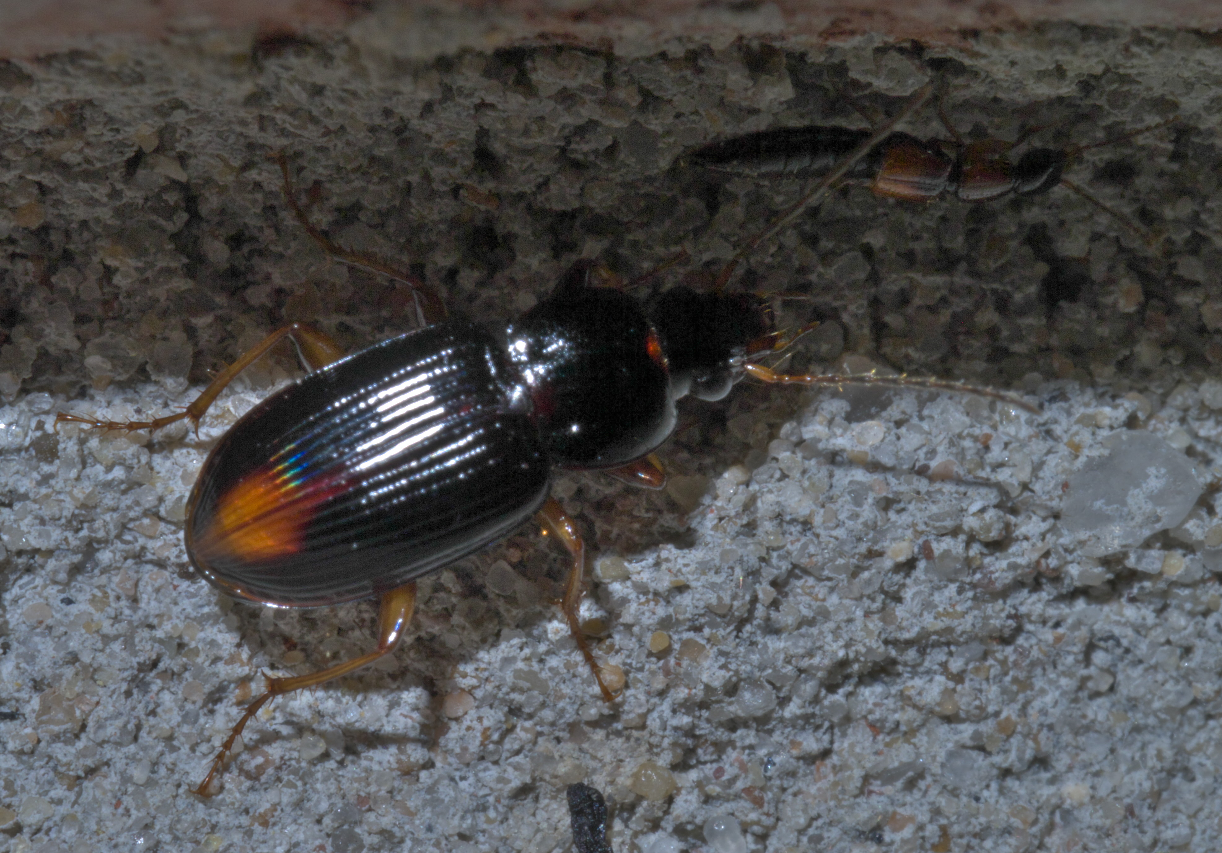 Loxandrus, Family: Ground Beetles, with a rove beetle, Size: 7.6 mm, ID Confidence: 98